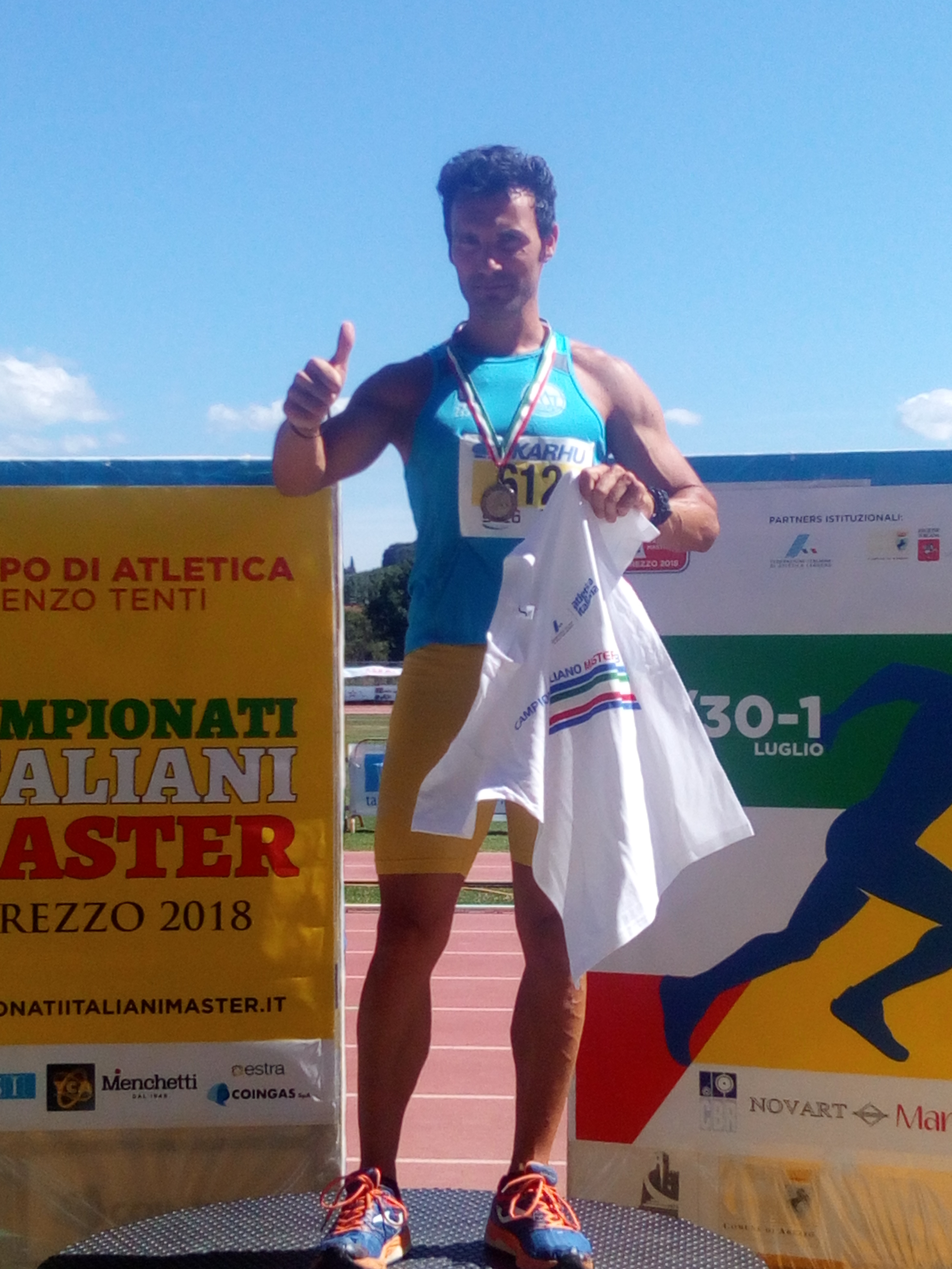 PODIUM MASTER ITALY M40 110HS